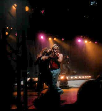 Ross Antony and Hila Bronstein at the Postars-Tour in Oldenburg